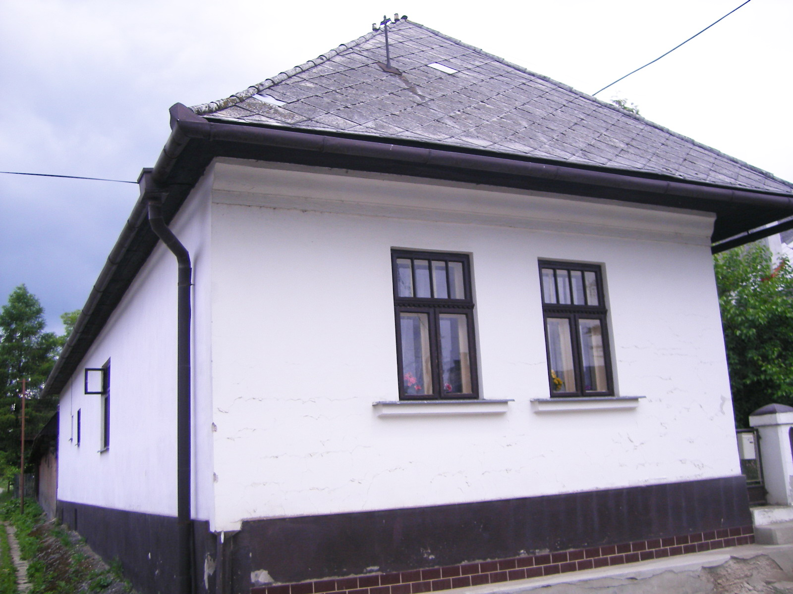 Diaková - traditional house